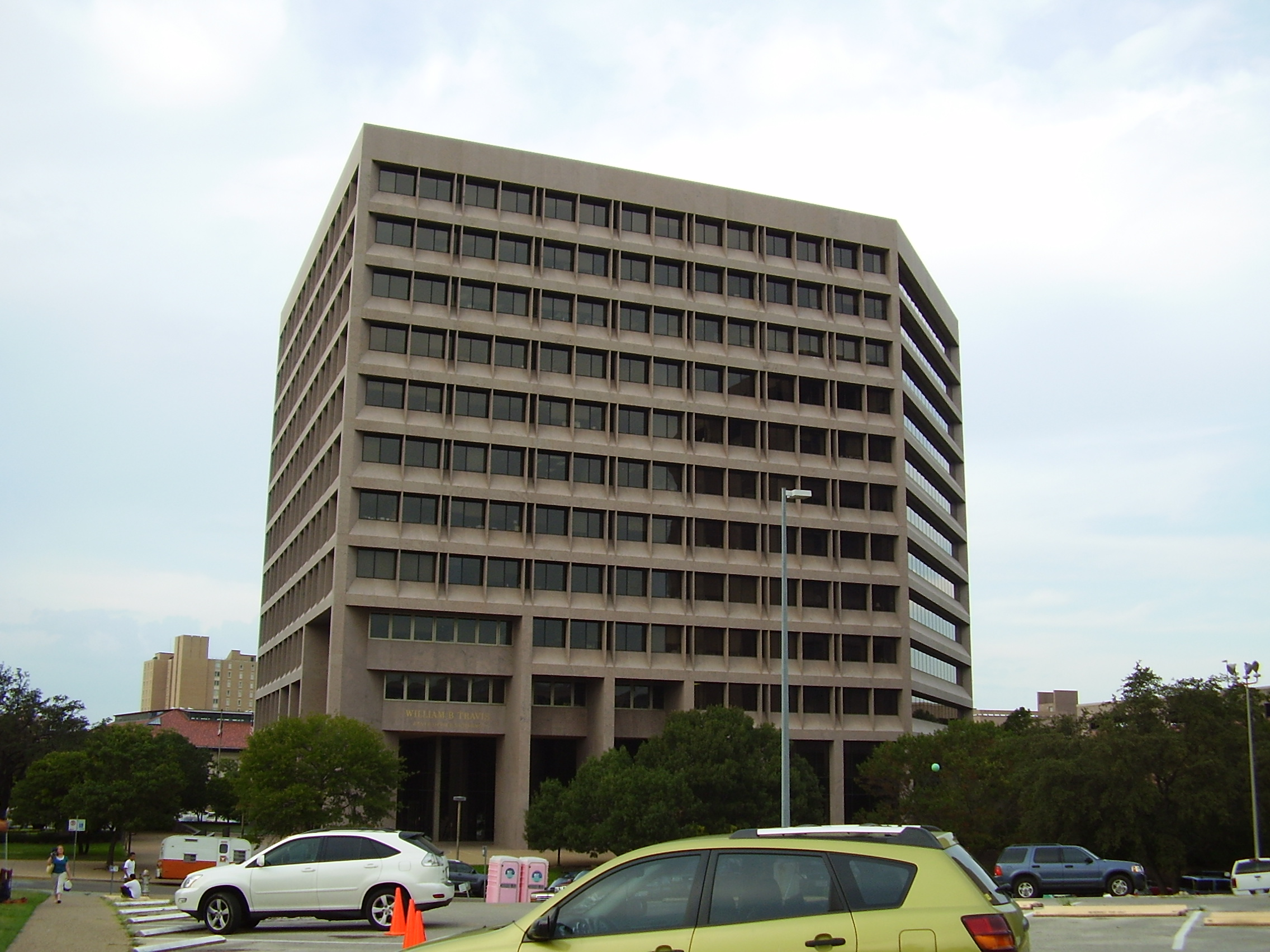 William B. Travis State Office Building, which includes the offices of the Texas Education Agency, the Public Utility Commission of Texas and the Railroad Commission of Texas